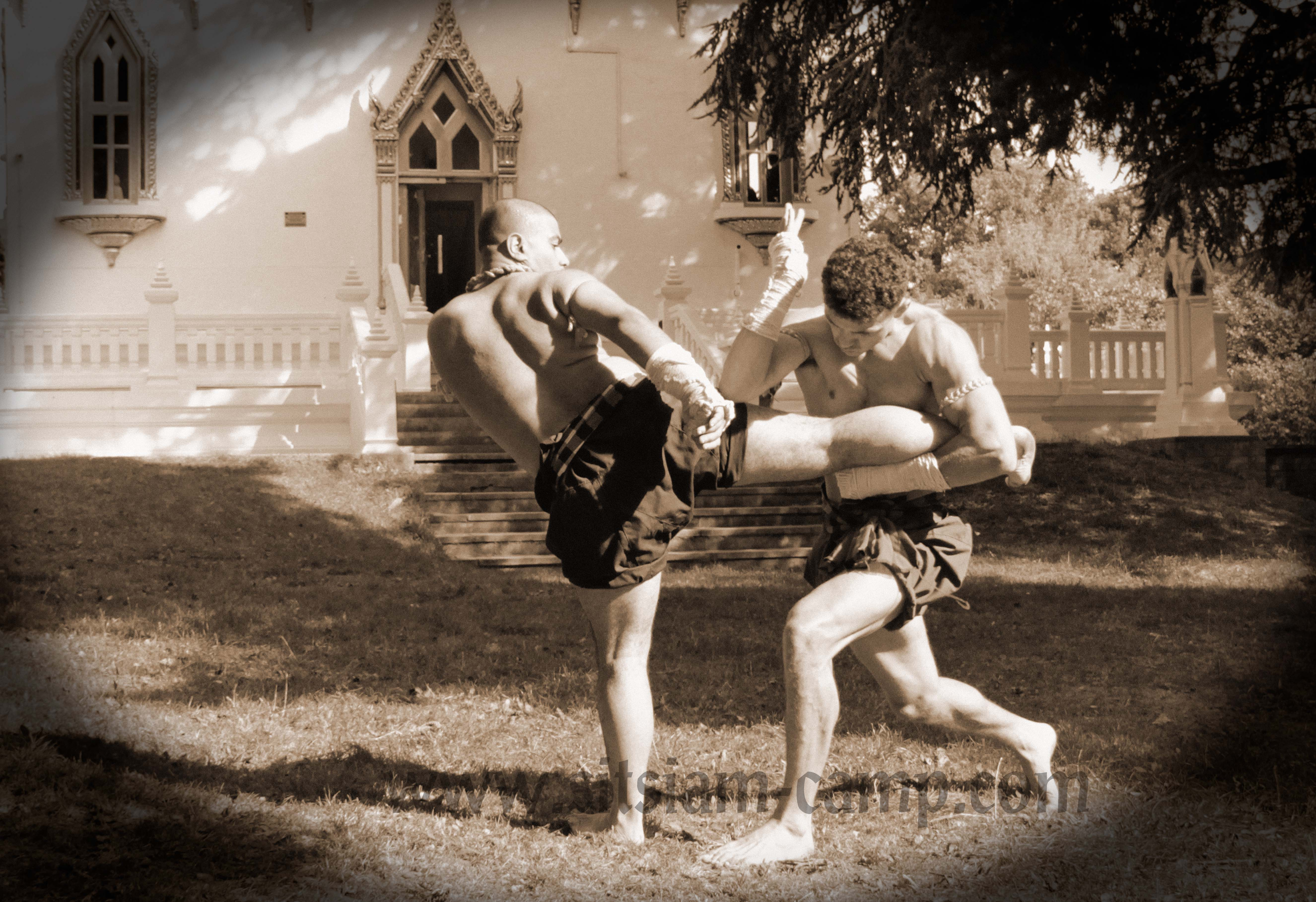 muayboran, Sitsiam camp, England.